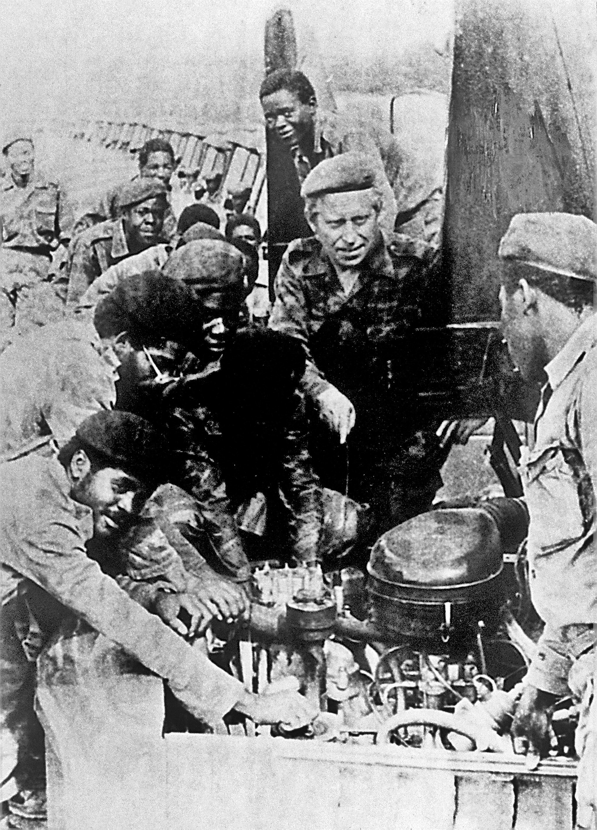 Soviet and East Bloc military advisors in Angola. "Soviet Military Power," 1983, Page 92